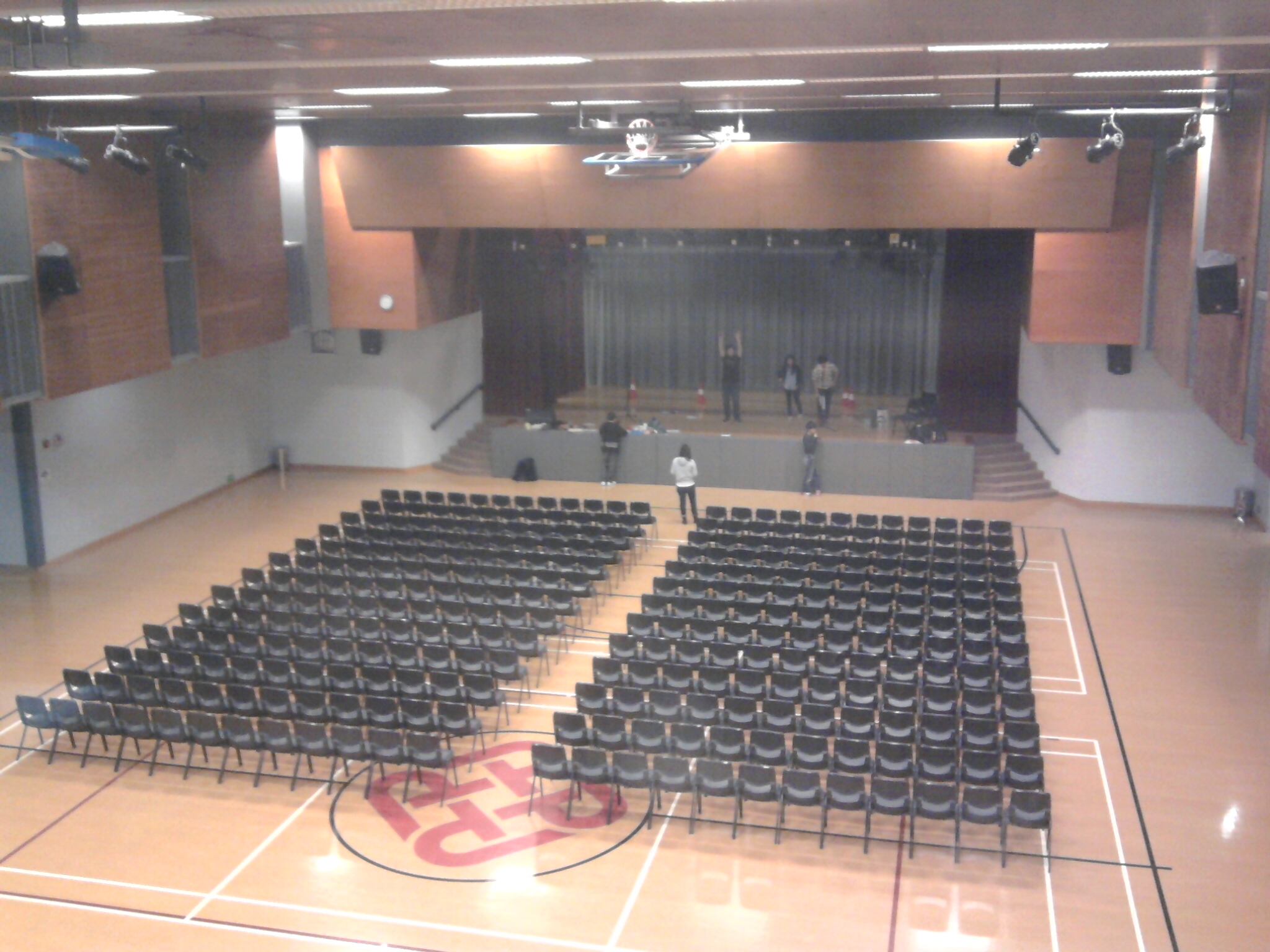 Multi-purpose Hall, Hong Kong Community College (West Kowloon Campus) Before holding of evangelize meeting by Hong Kong Community College Christian Fellowship in 1 Mar 2012